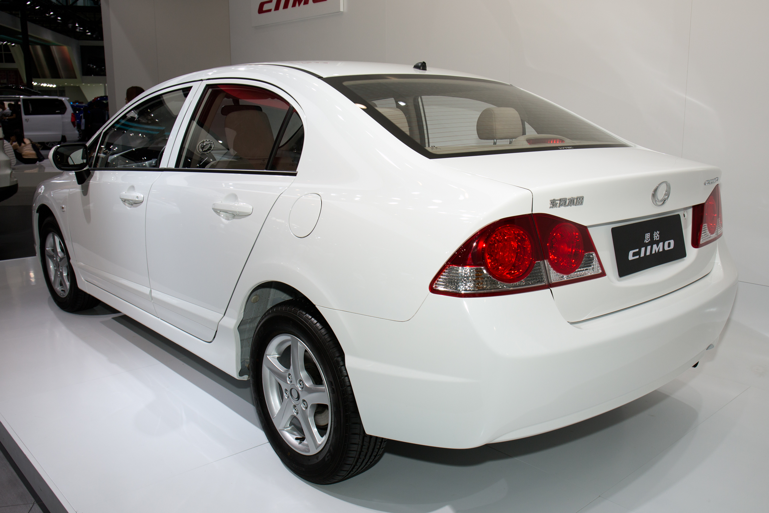 Auto China 2016: Honda Ciimo